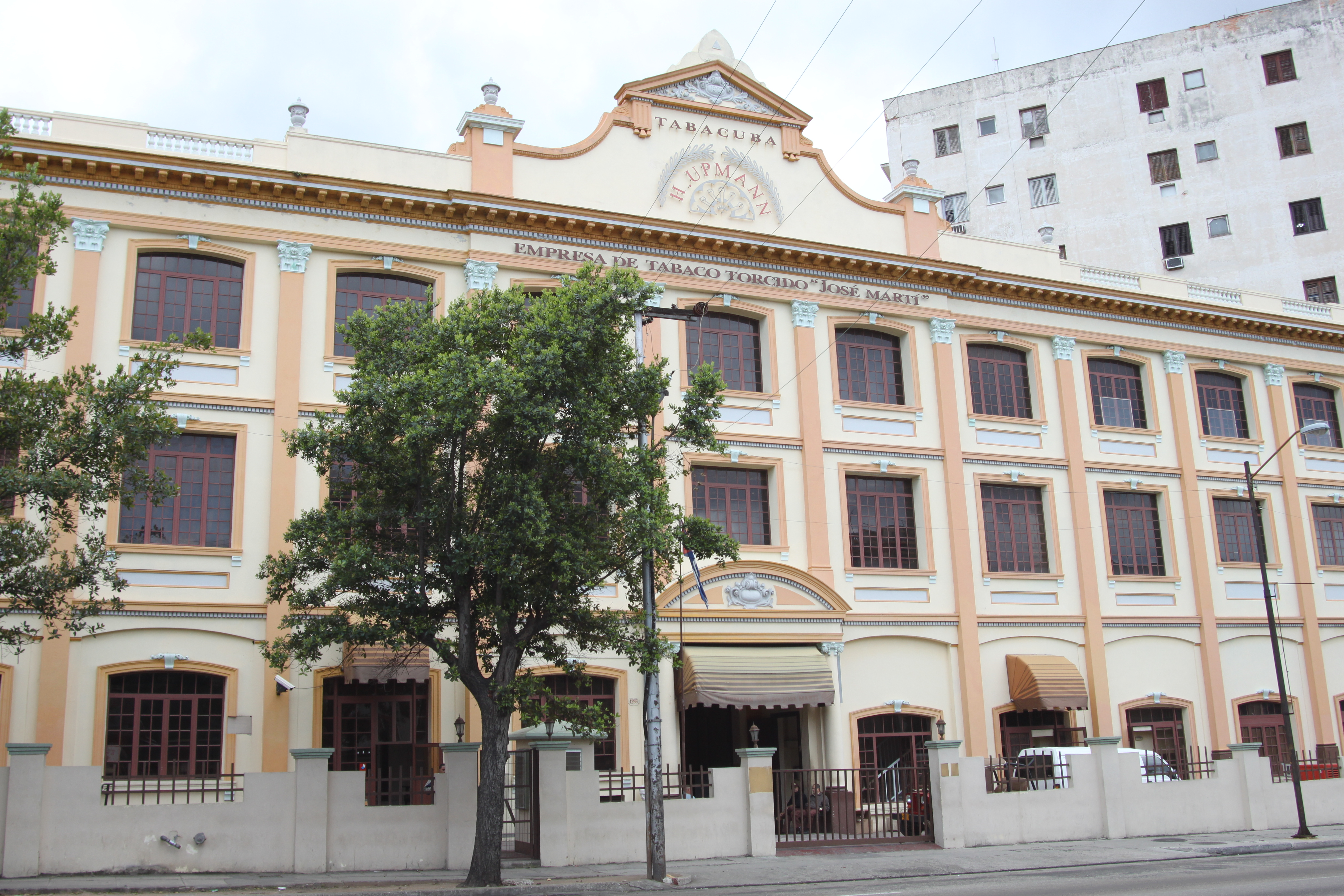 Cigar Factory "H-UPMANN"